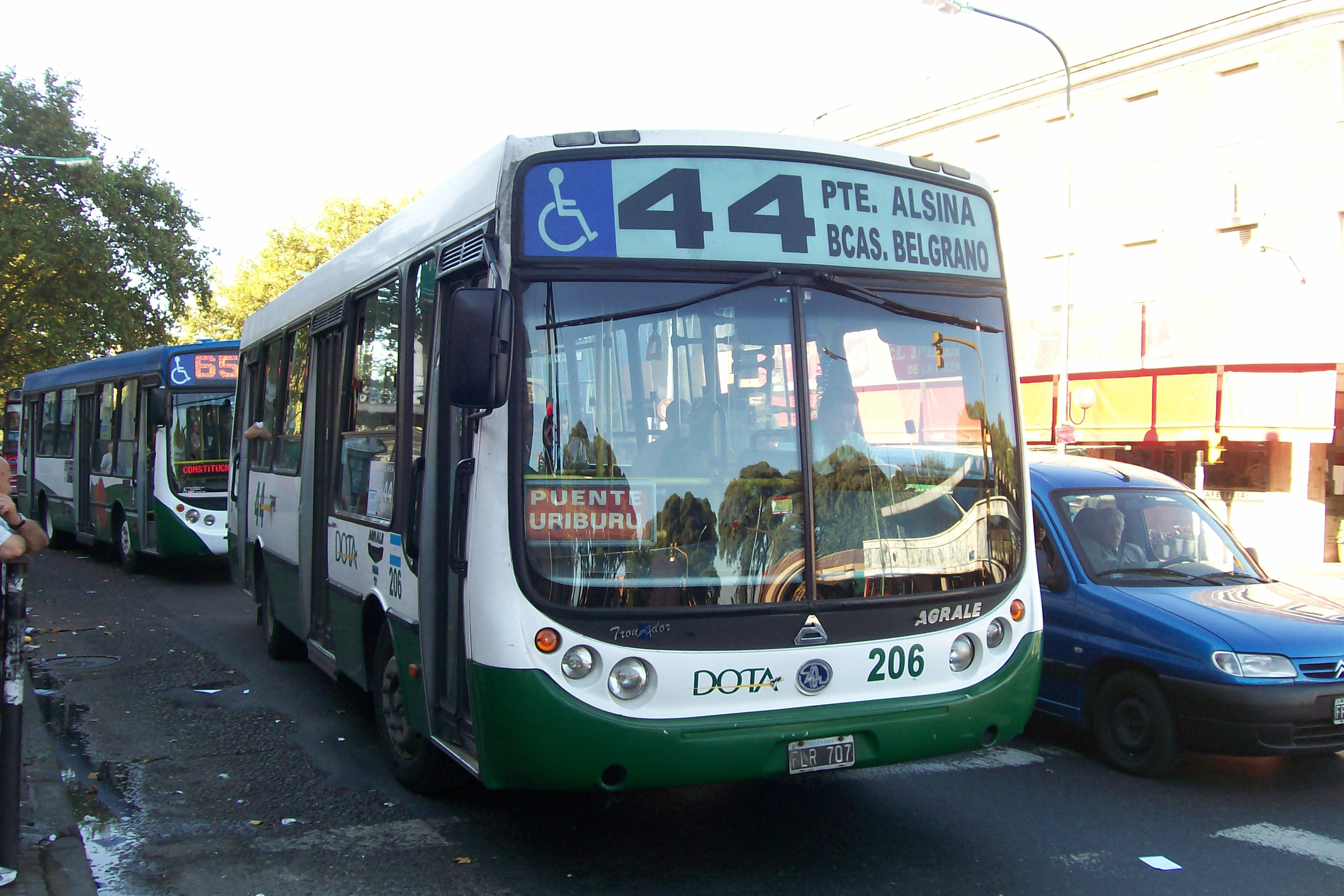 Metalpar Tronador bodywork (reg. FLR 707) over Agrale chassis from the bus line (route) 44, DOTA SA (Doscientos Ocho Transportes Automotores Sociedad Anónima), coach number 206. Buenos Aires City. Argentina.